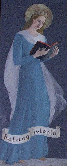 Part of photo taken by T. Tamas. The original photograph shows a triptych. Holy Spirit church, Pesthidegkút, Hungary.